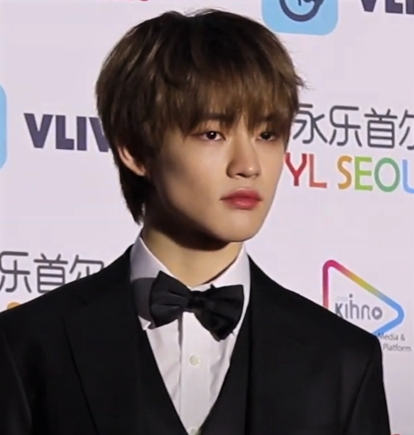 Zhong Chenle on the red carpet of the 9th Gaon Chart Music Awards, January 8, 2020.